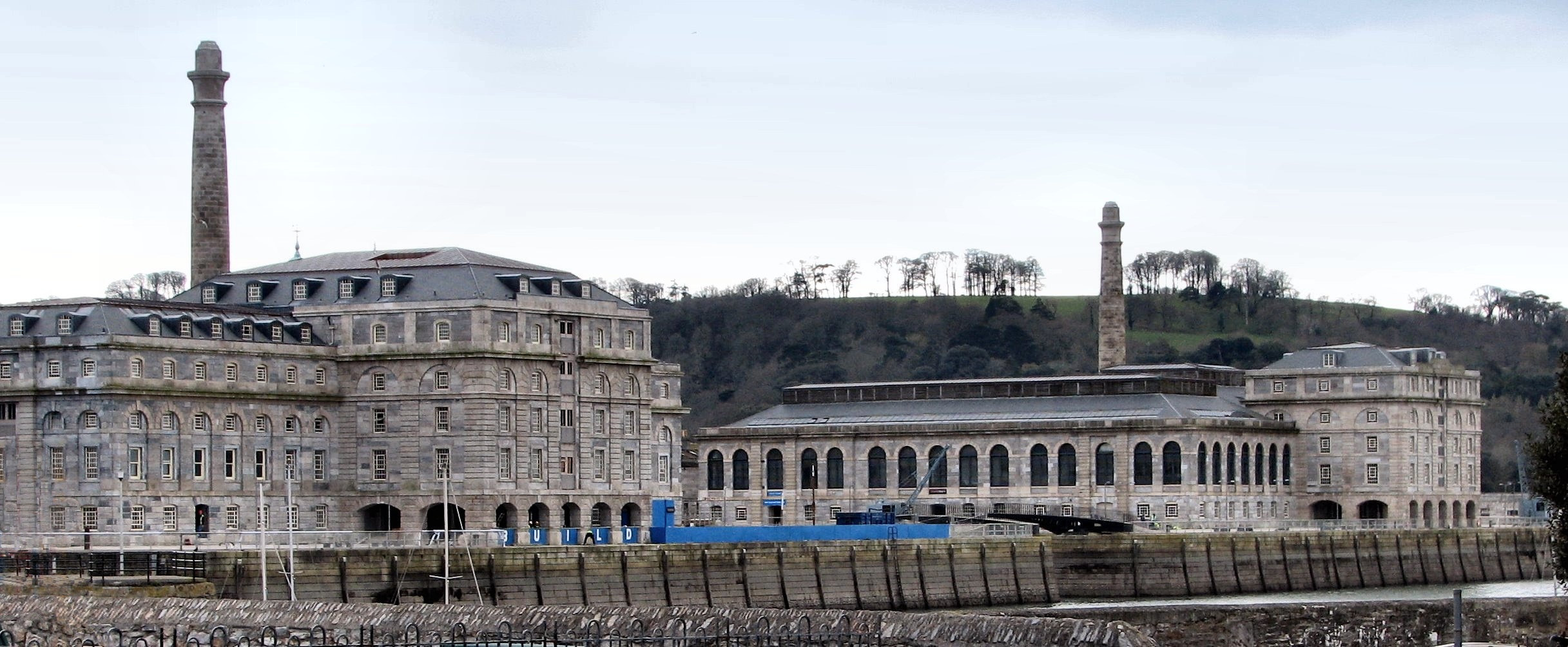 The Royal William Victualling Yard, Stonehouse, Plymouth, Devon, England. Designed by Sir John Rennie and built in in 1825-33.